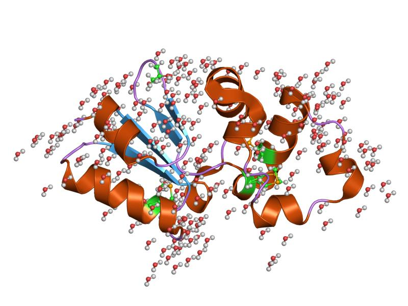 Cartoon representation of the molecular structure of protein registered with 1rw1 code.